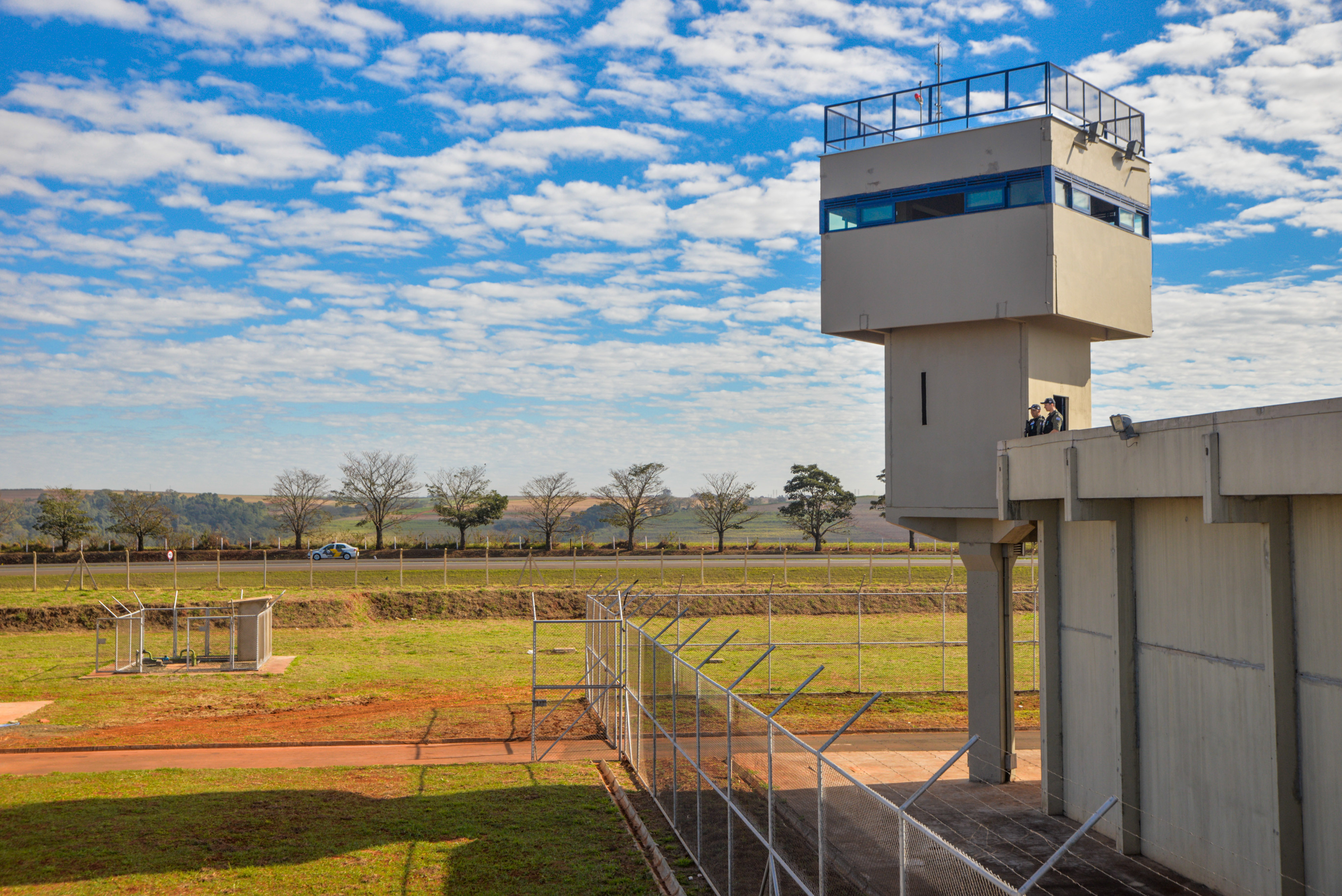 O Governador de São Paulo, Geraldo Alckmin esteve presente na Entrega da Penitenciária Masculina na SP-147 Rodovia Deputado Laércio Corte, km 132. Local: Piracicaba/SP. Data: 27/07/2016. Foto: Alexandre Carvalho/A2IMG